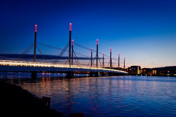 A picture of Munsjö bridge